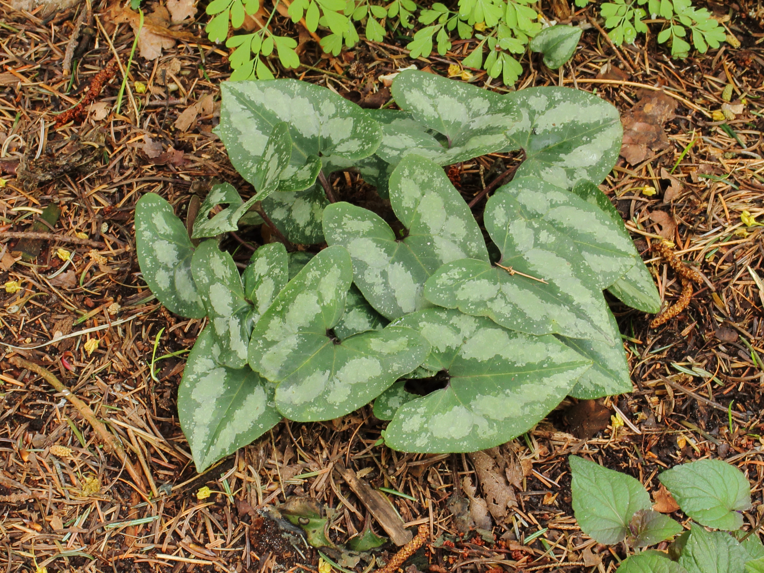 Asarum splendens. Perennial for the shade with decorative leaf.